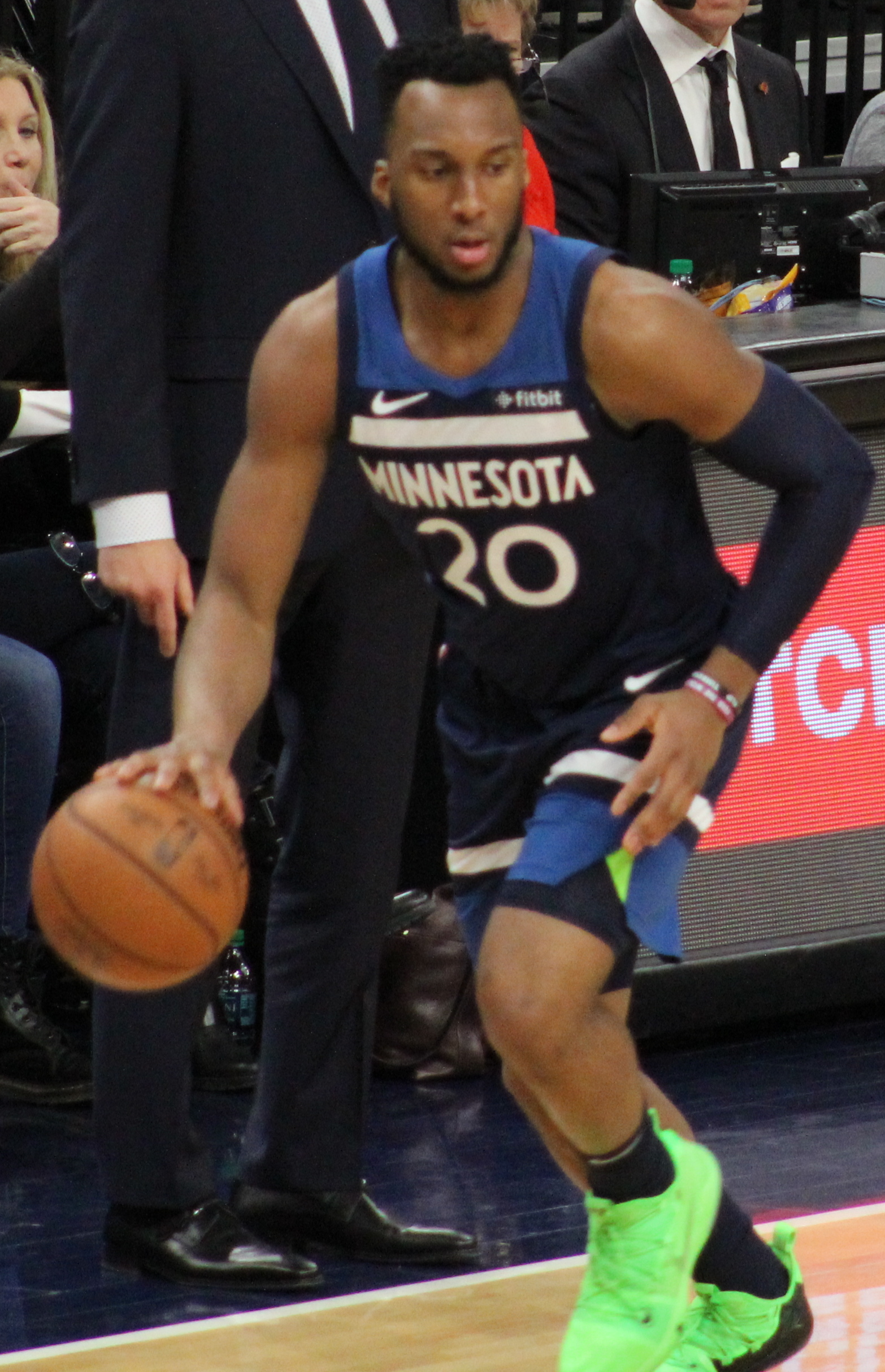 Josh Okogie of the Minnesota Timberwolves